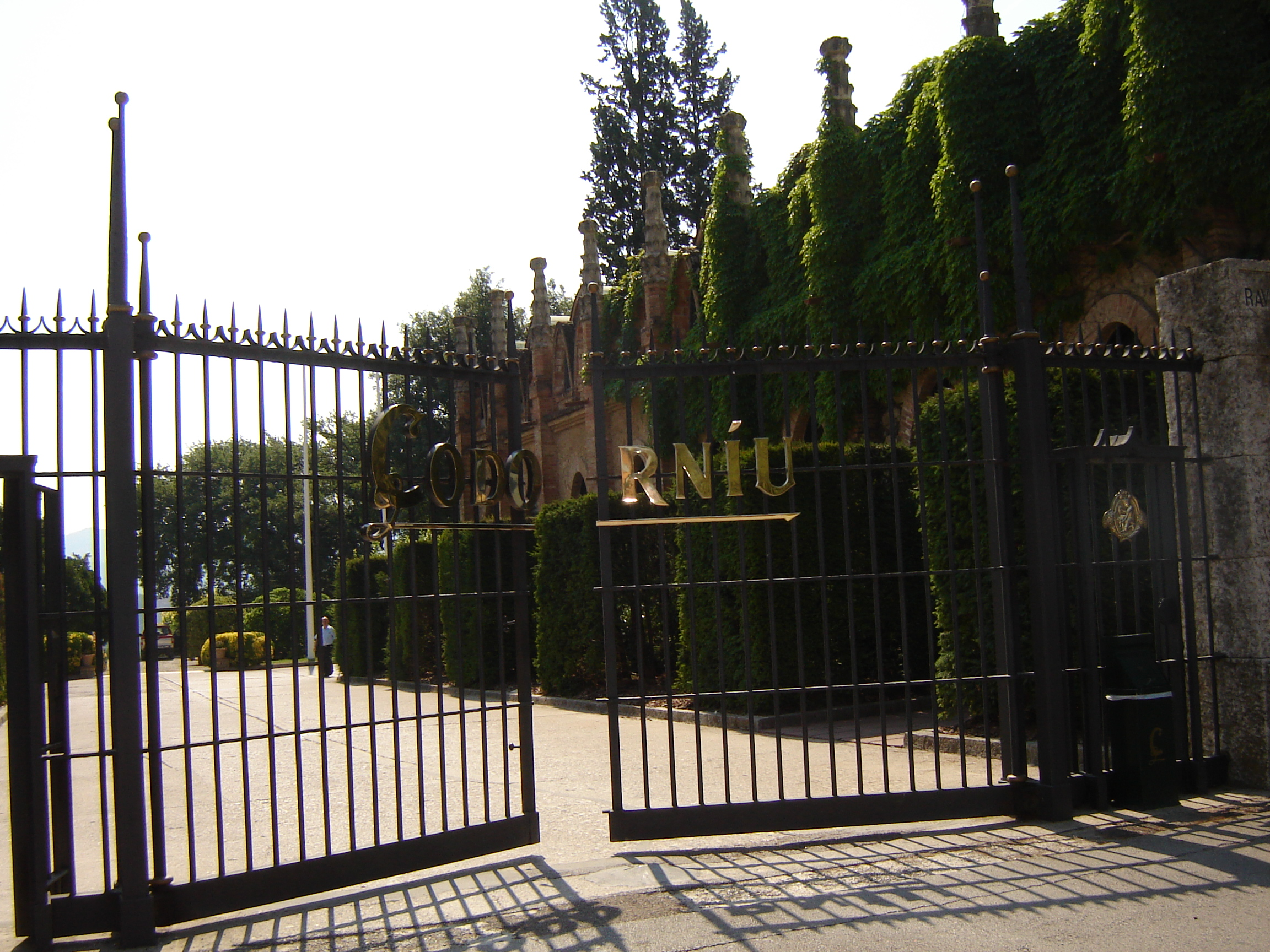 Entrance gate of the domains of Codorníu. Sant Sadurní d'Anoia, comarca Alt Penedès, province of Barcelona, Catalonia, Spain.